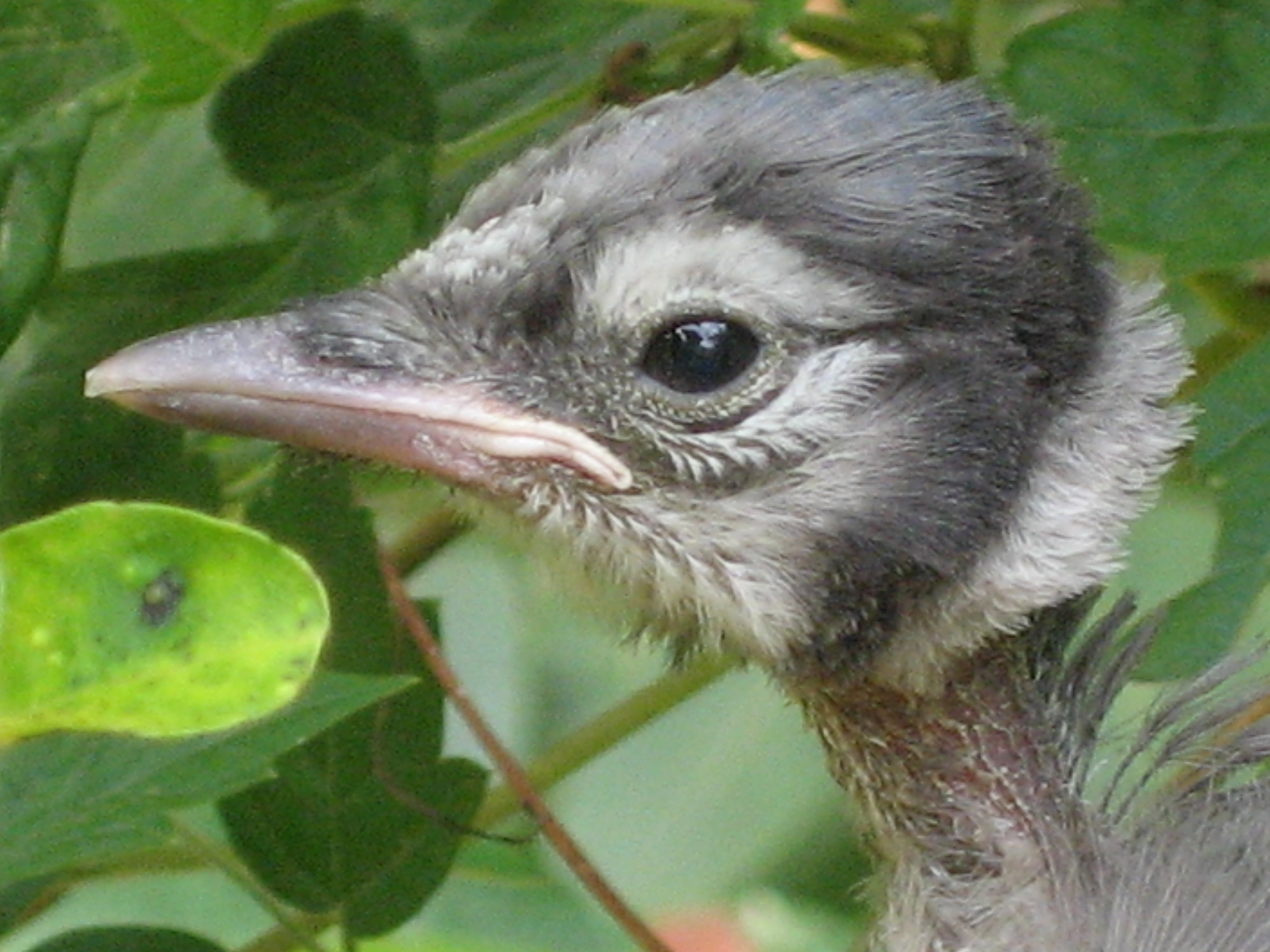 Blue Jay fledgling head